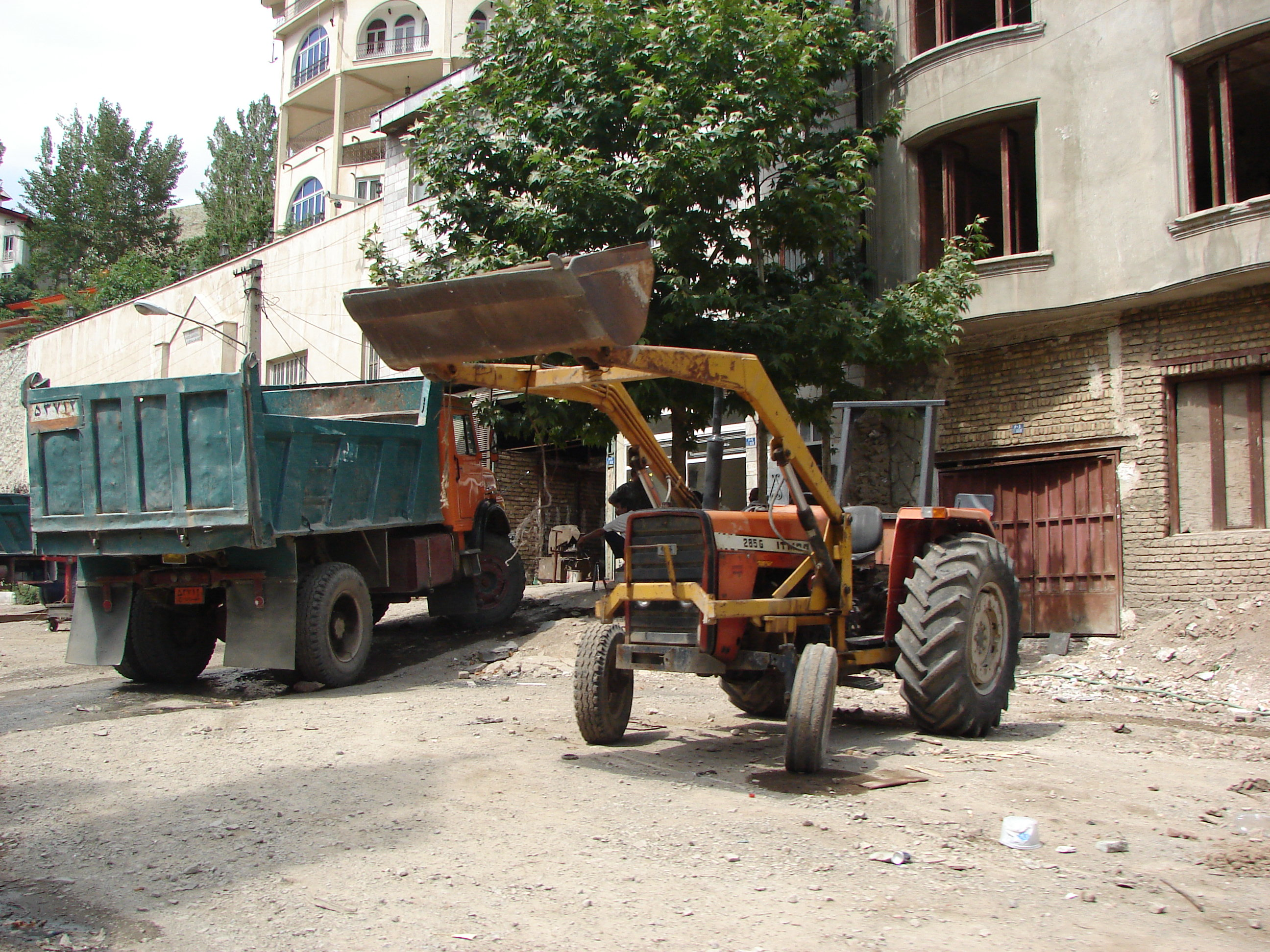 ITMCo Tractor - Snapshot from Tehran